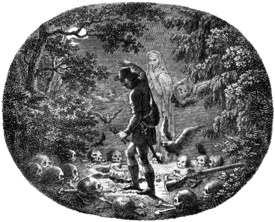 Title page engraving from: August Apel / Friedrich August Schulze: Gespensterbuch Vol. 1, Göschen, Leipzig 1811. The image shows a scene from the tale "Der Freischütz" by Apel.